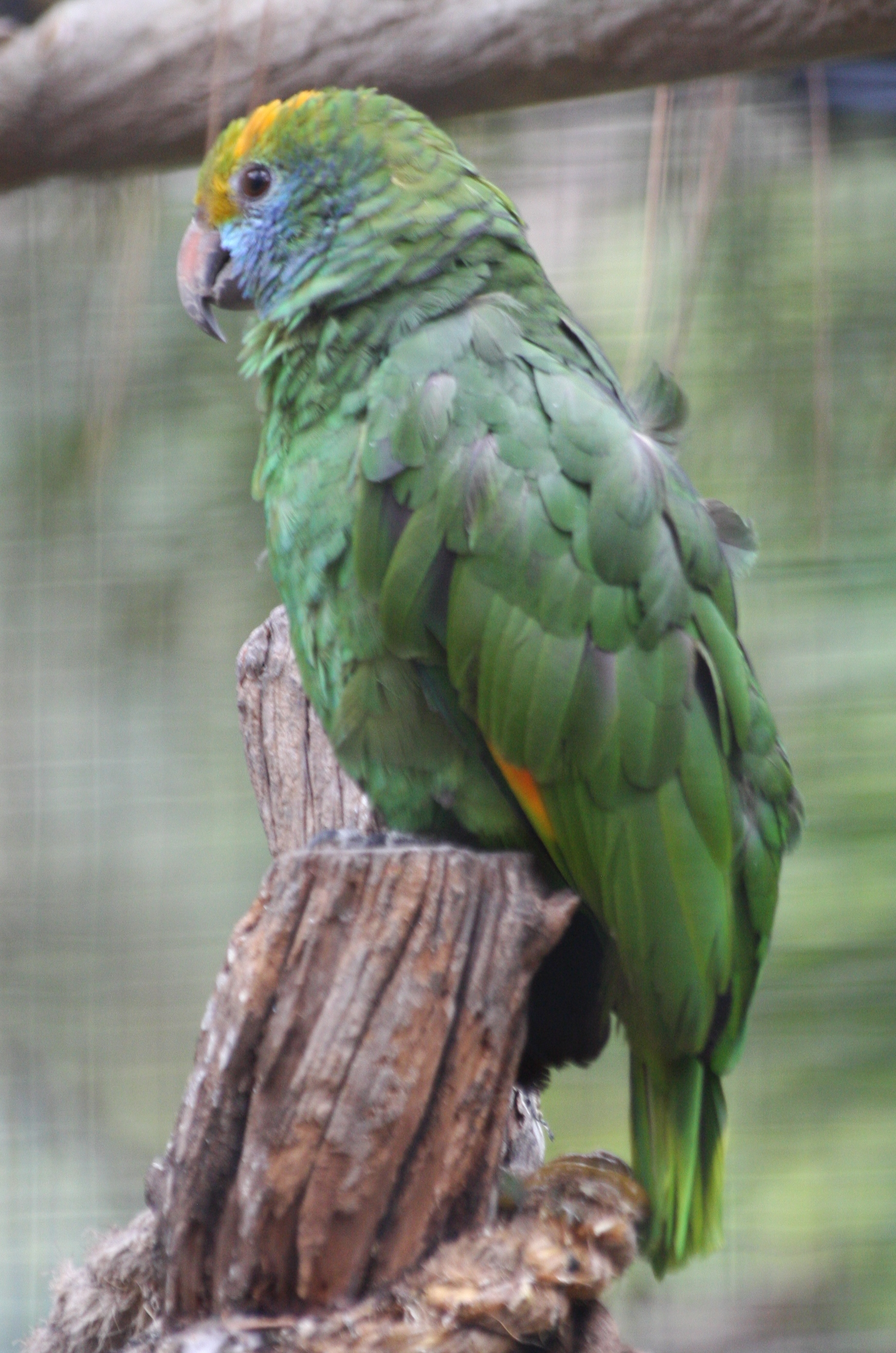 Amazona_dufresniana is native of Suriname and Guyana. This specimen is from Palmitos Park, Gran Canaria.